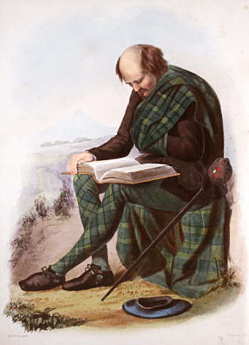 "Campbell of Argyll". A plate illustrated by R. R. McIan, from James Logan's The Clans of the Scottish Highlands, published in 1845.